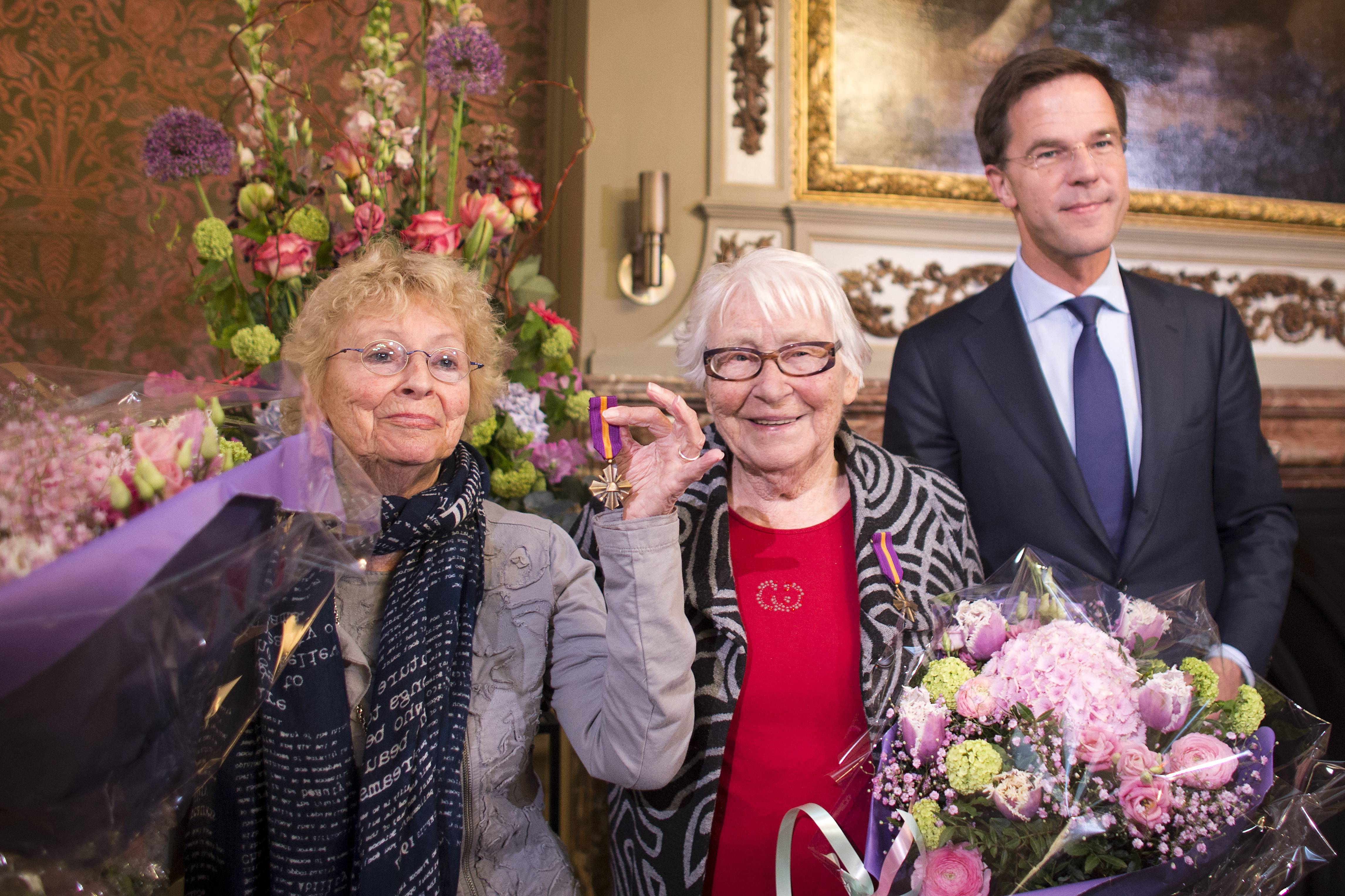 Freddie Dekker-Oversteegen (links) Truus Menger-Oversteegen en premier Mark Rutte